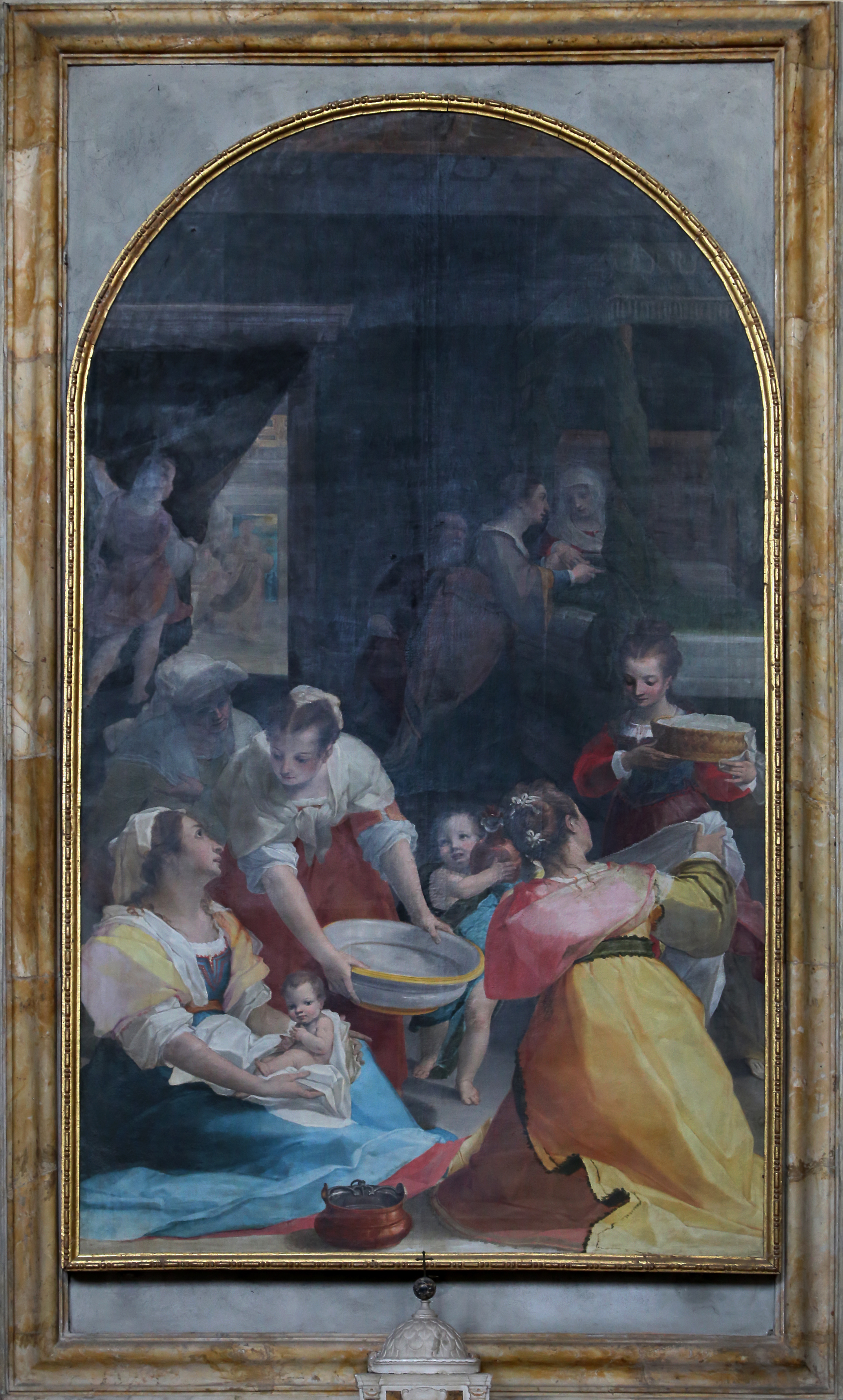 Interior of the Basilica of San Domenico (Siena)